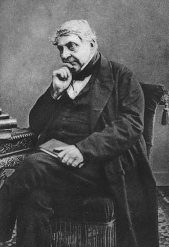 Joseph-Henry Léveillé